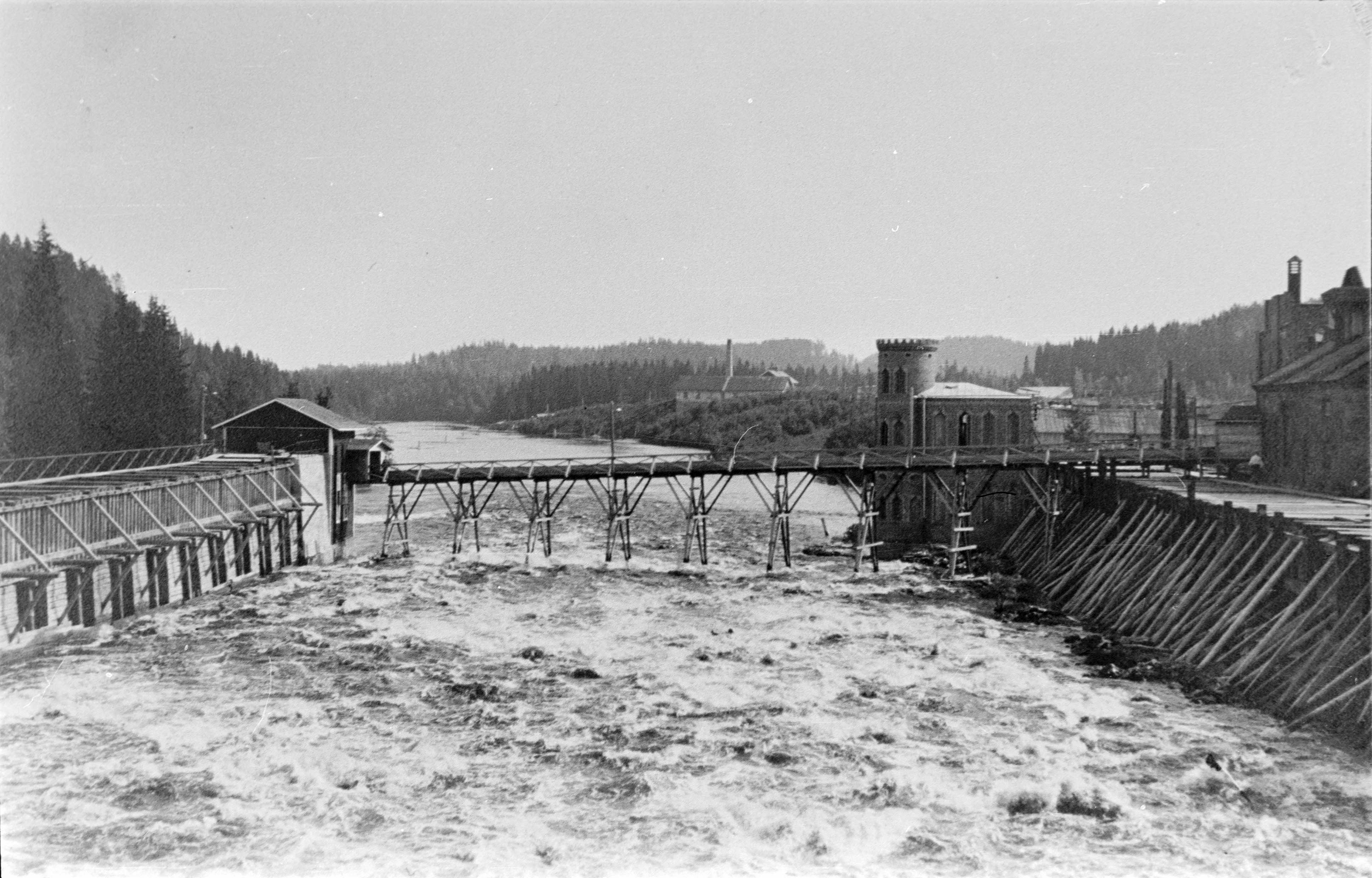 Leppäkoski rapids and hydropower plant in Jänisjoki, Finnish East Karelia (now part of Russia) in the 1920s.